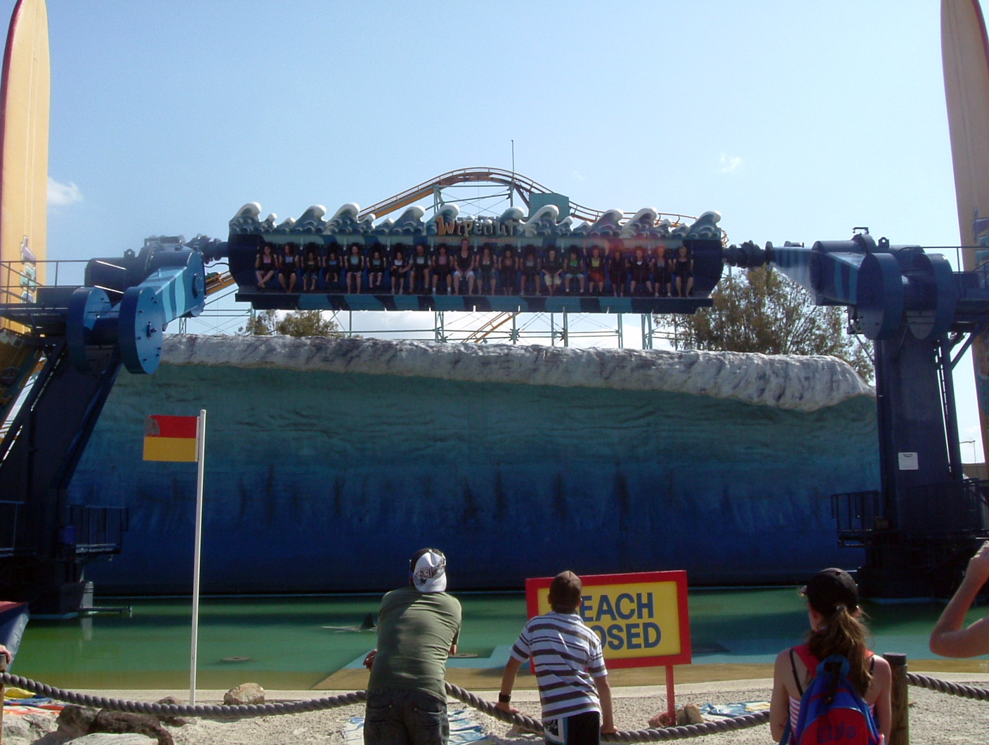 The Wipeout is one of only a few Vekoma Wakiki Wave Super Flips in the world. The ride is similar in looks to a top spin however the arms can move in opposite directions giving a twisting motion. It is located at the Dreamworld theme park on the Gold Coast, Australia.